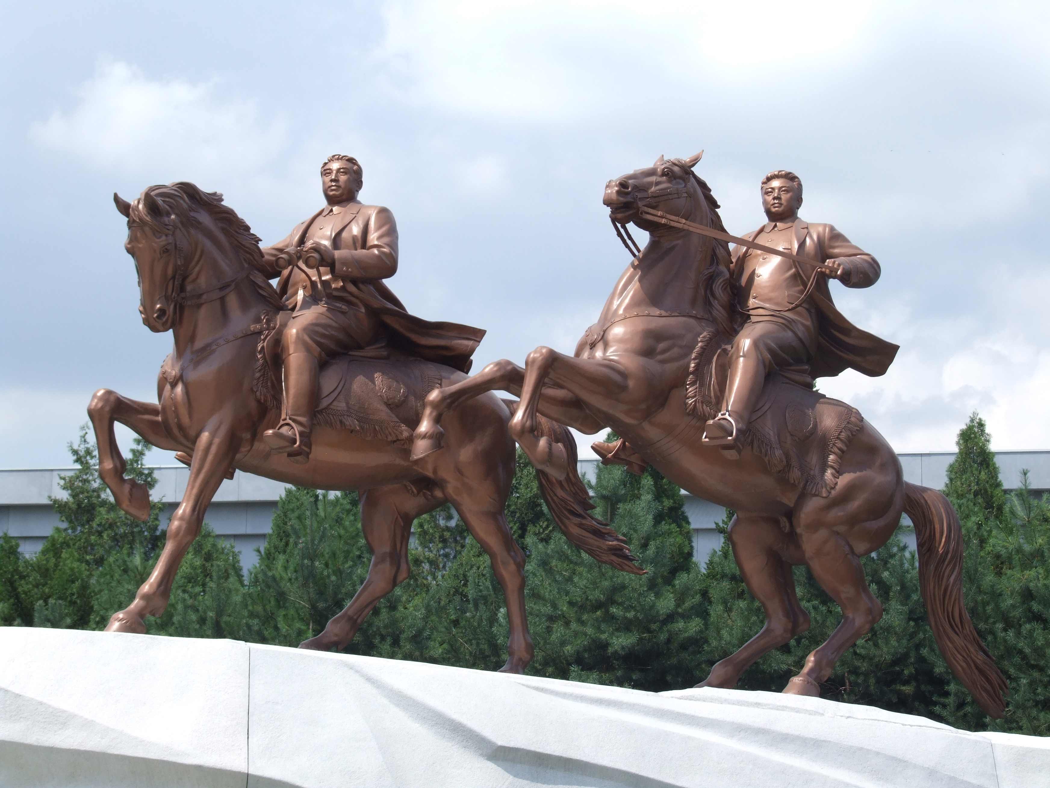 Statue of Kim Il-sung and Kim Jong-il riding horses at Mansudae Art Studio in Pyongyang